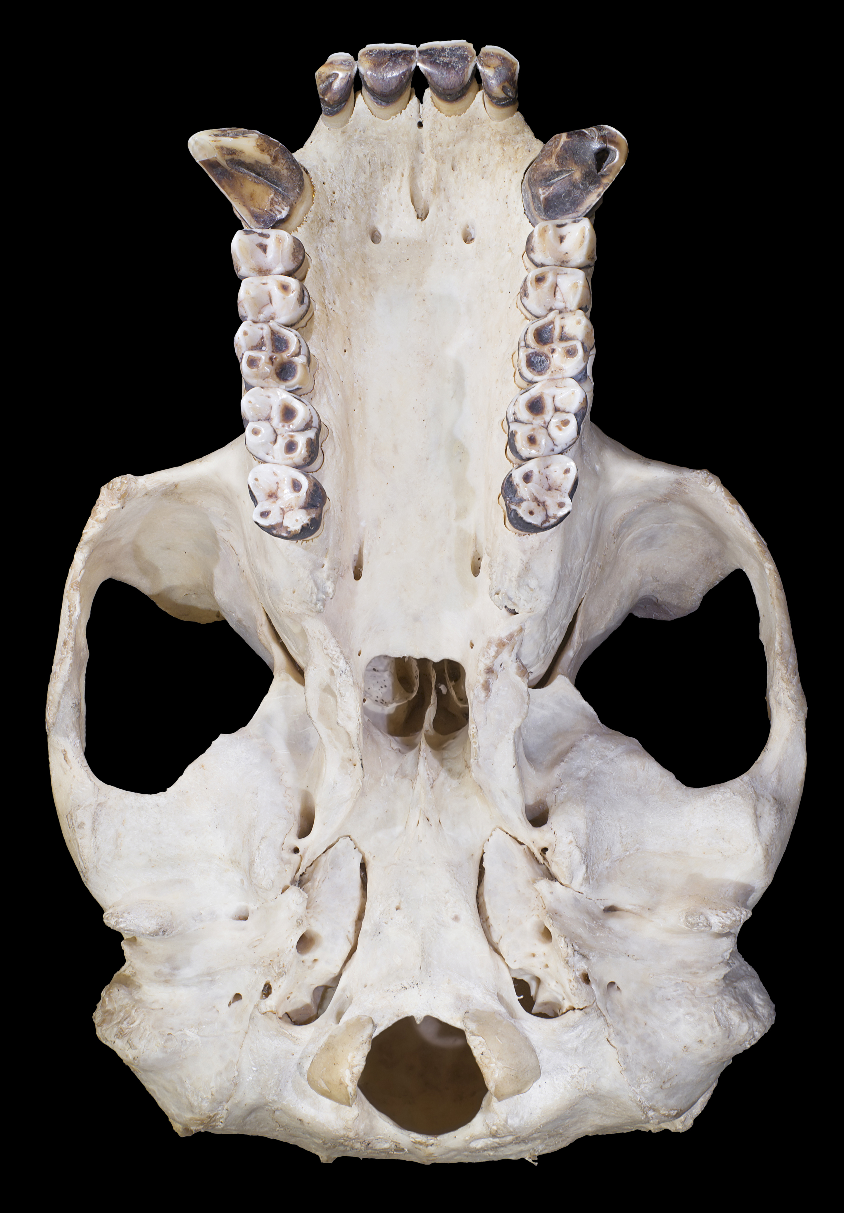 Western Gorilla Gorilla gorilla (Savage, 1847) - Male - Different views of the same specimen Locality : Gabon Haut-Ogooué Province Chakès Size : 26 × 23 × 18cm